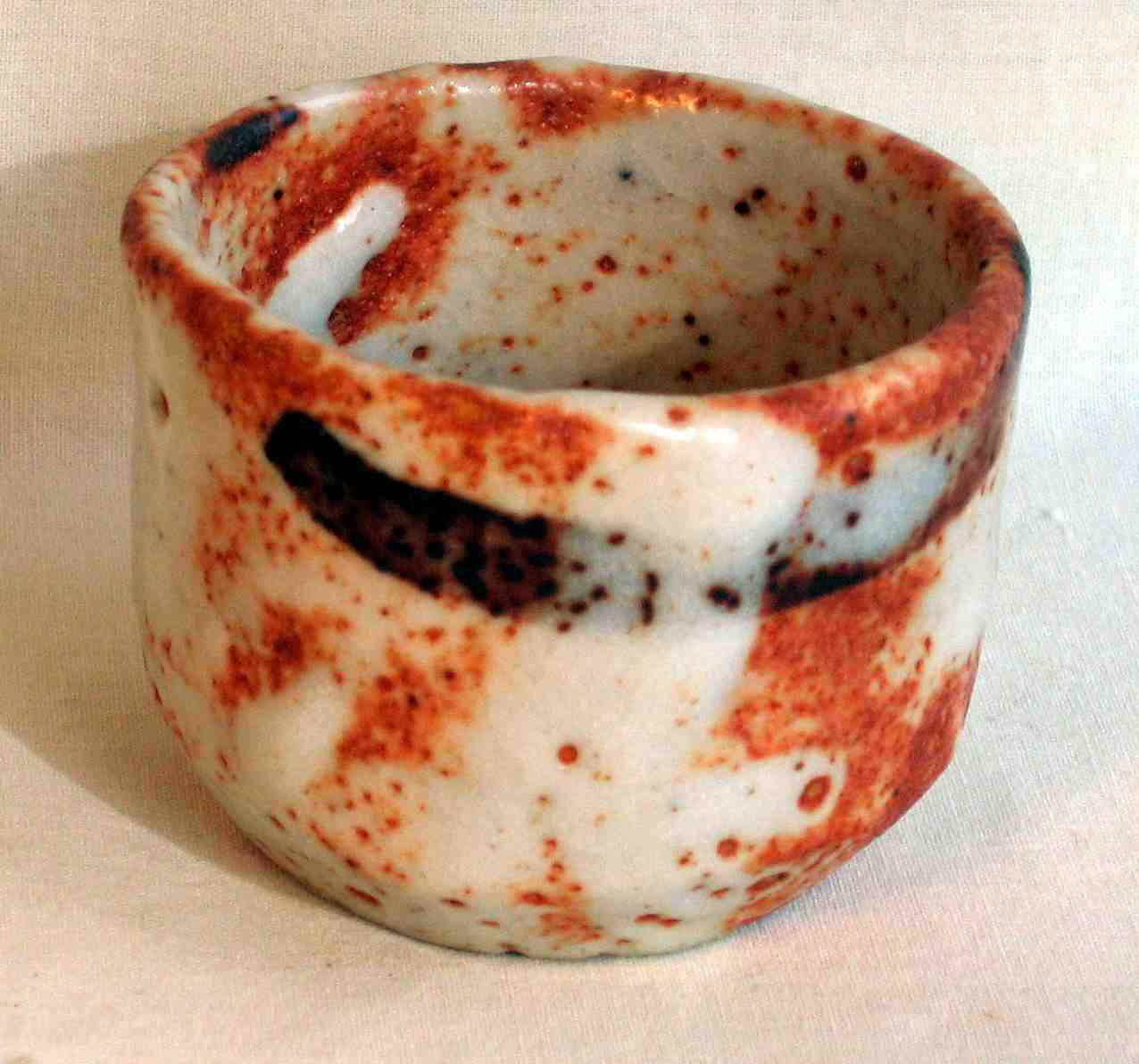 Japanese ceramic piece illustrating the concept of shibusa